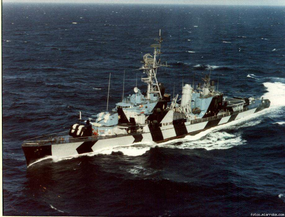 The Chilean destroyer Ministro Portales (DD-17) underway in 1978. The ship is camouflaged because of the Argentine "Operación Soberanía" (Operation Sovereignty), a planned invasion of Chile that started on 22 December 1978. The invasion was halted after a few hours and Argentine forces retreated from the conflict zone without a fight. The tensions were caused by the Beagle conflict, a border dispute between Chile and Argentina over the possession of Picton, Lennox and Nueva islands and the scope of the maritime jurisdiction associated with those islands. The islands are strategically located off the south edge of Tierra del Fuego and at the east end of the Beagle Channel.